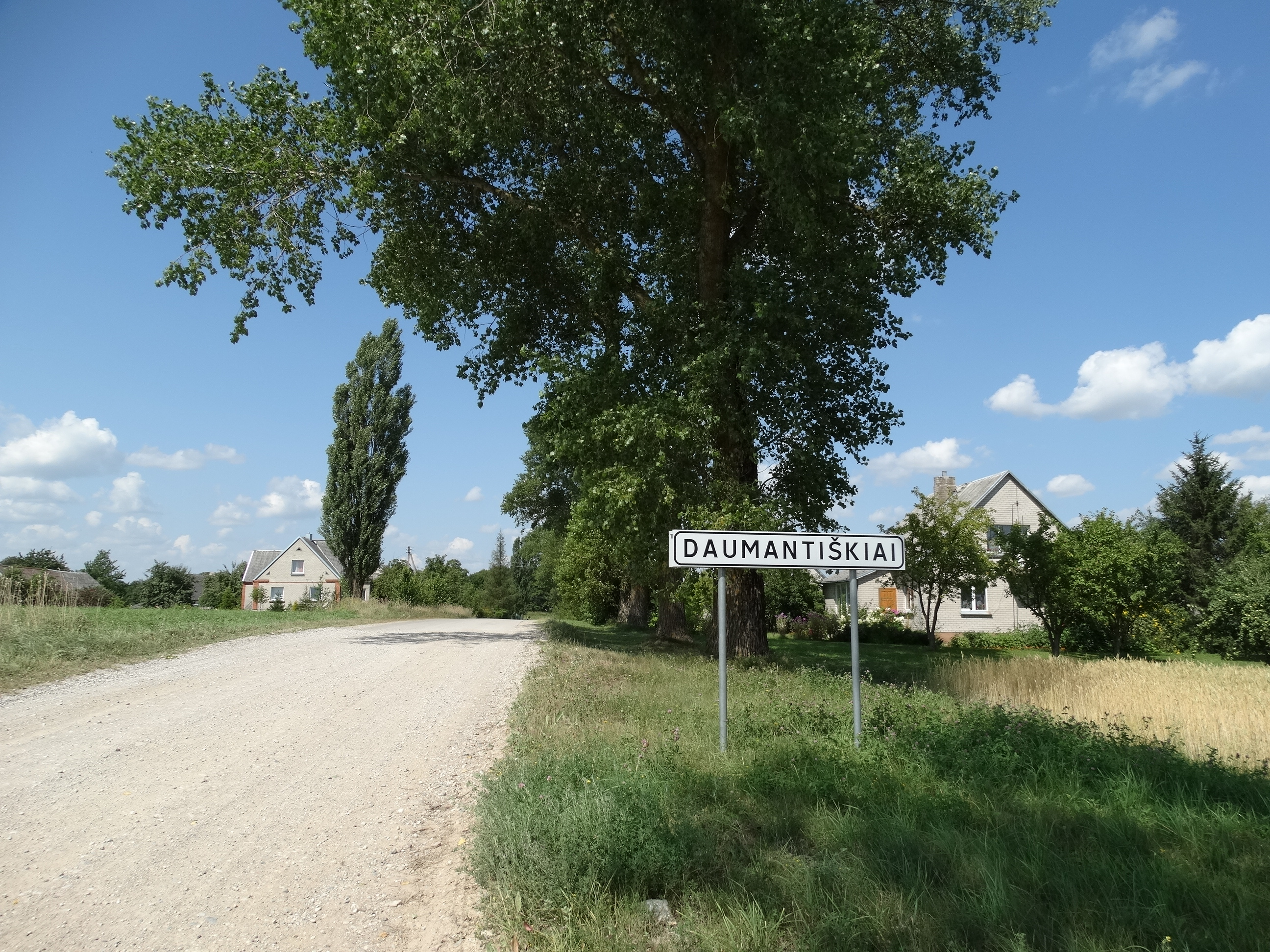 Daumantiškiai, Ukmergė district, Lithuania